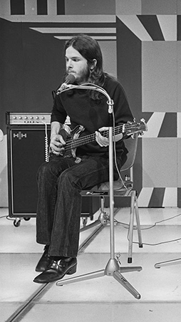 Dan Peek, member of the band America, performs on AVRO's TopPop in 1972.